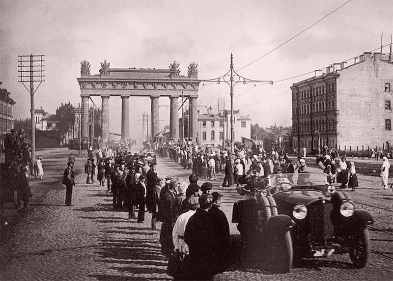 The picture shows the first miles of one of autorallies which became more and more propular in the Russian empire before WWI. Cars have already covered about 5 miles from the center of St.Petersburg and now ride along Zabalkansky (today Moskovsky) prospekt southwards, out of the city. The triumphal arch behind them is 'Moskovskiye vorota'.